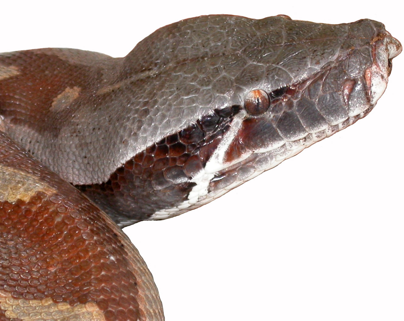 Blood Python (Python brongersmai)